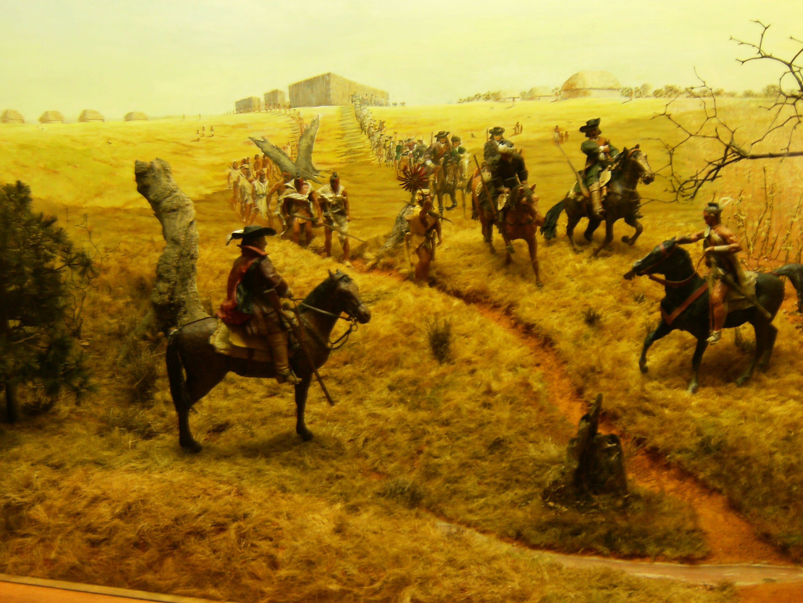 A raiding party passes the trading-post at the Ocmulgee River, near today's Macon, Georgia, USA. Diorama at display in the Visitor Center of Ocmulgee National Monument